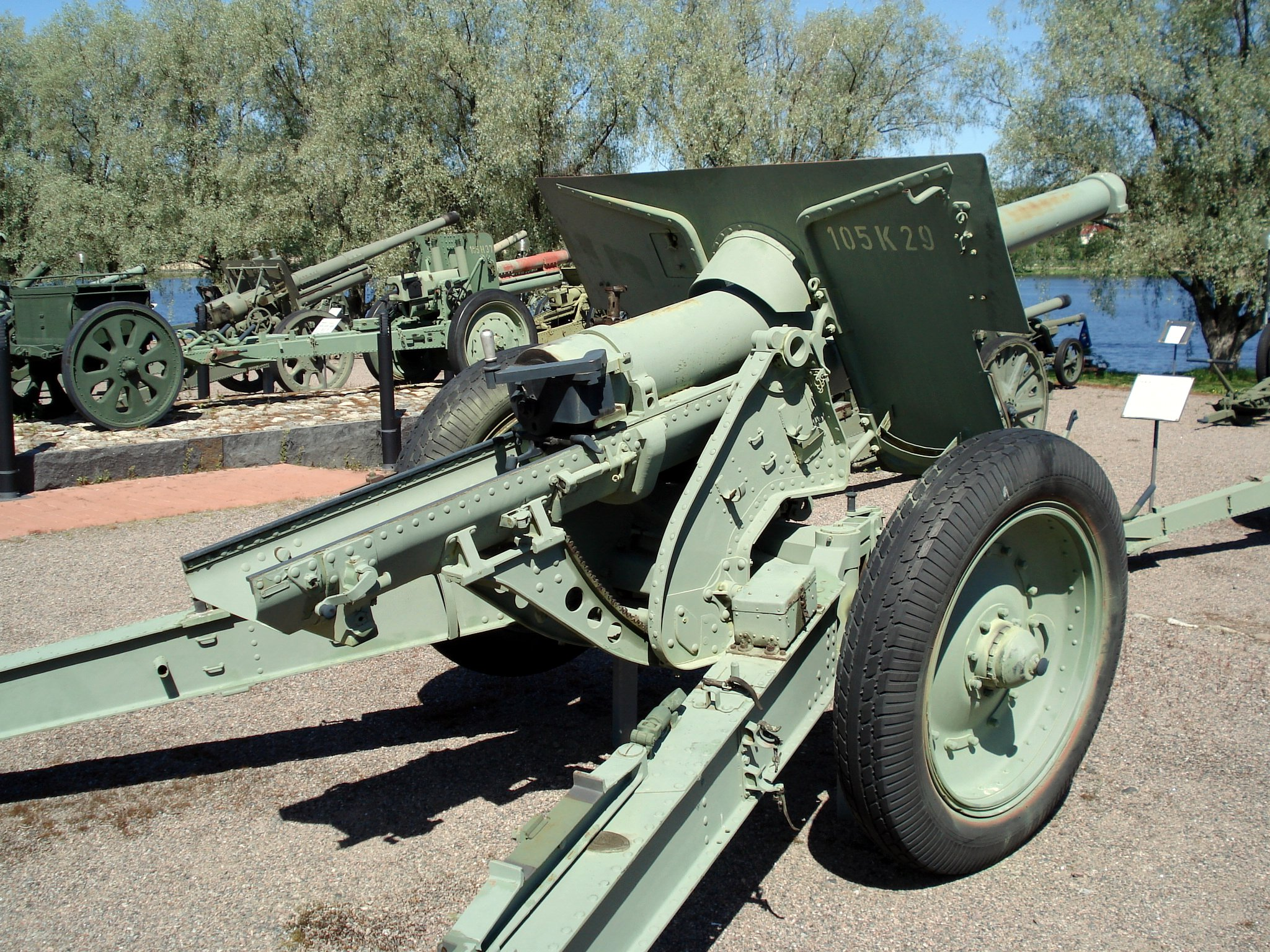 Polish wz. 29 Schneider 105 mm gun, displayed in Hämeenlinna Artillery Museum. Photo taken on June 18, 2006. Source: Photo by me, User:Balcer.